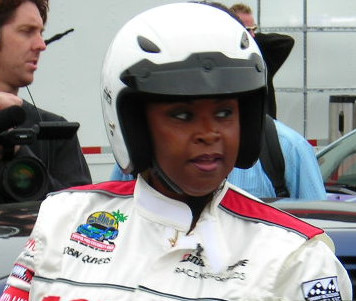 Robin Quivers auto racing